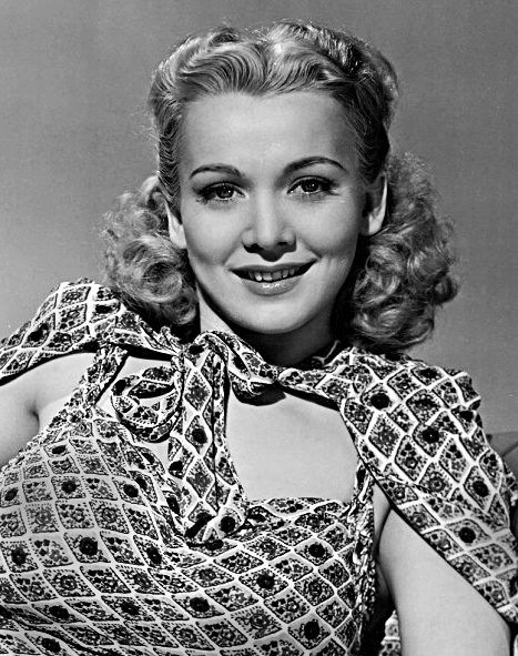 Original publicity photo of Carole Landis.